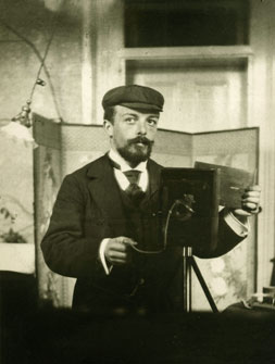 Gabriel Veyre Self portrait 1898